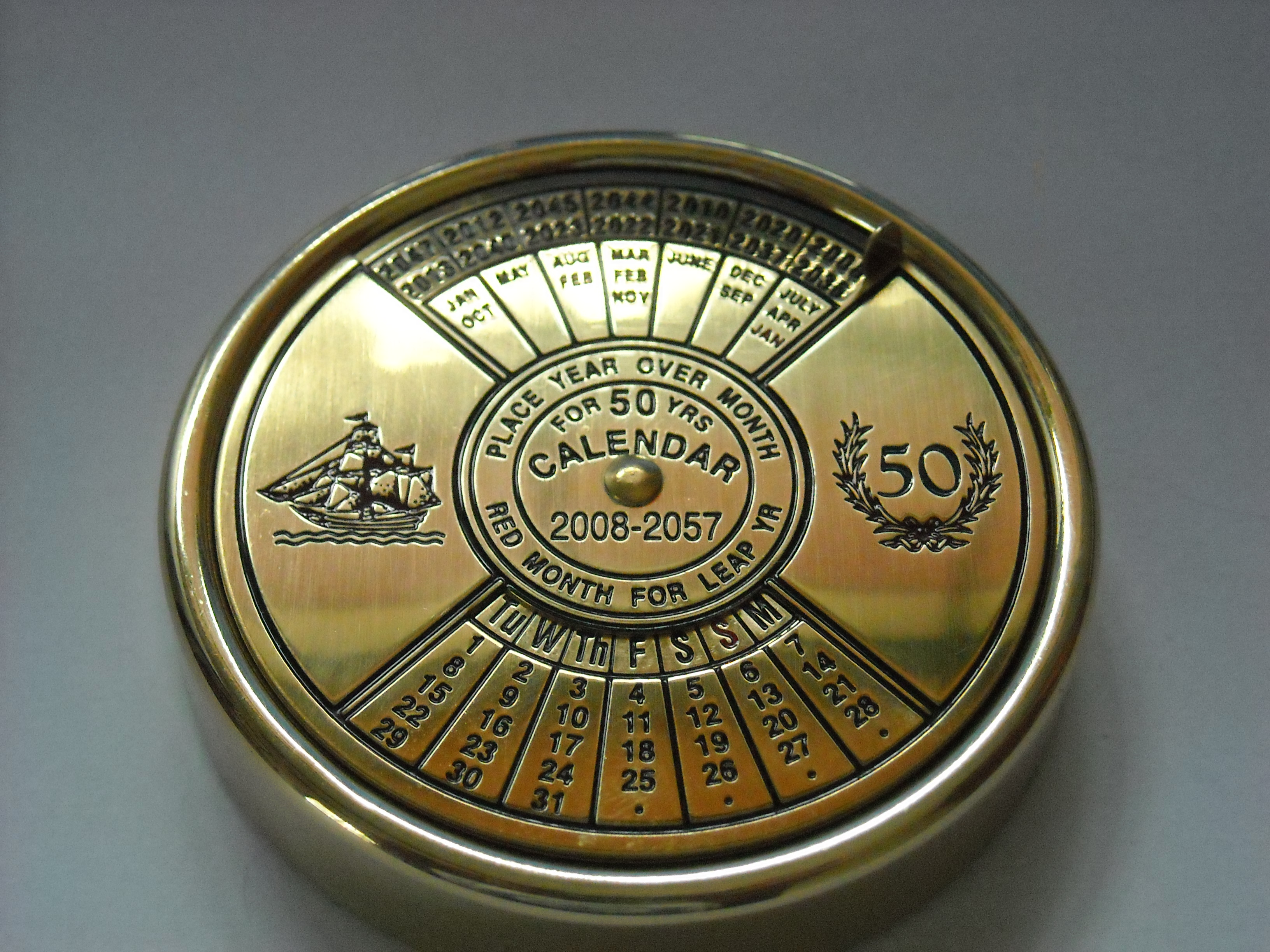 A 50-Year perpetual calendar made of brass, showing July, April, and January of 2008